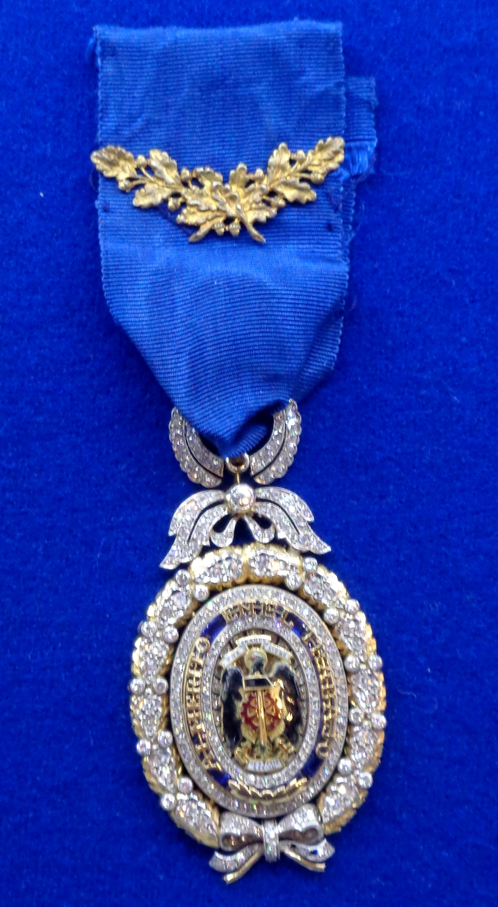 Gold Medal of Merit for Labour with diamonds, before 1975. Spain. The exhibition of the Tallinn Museum of Orders of Knighthood, Estonia.